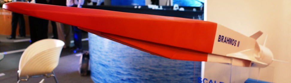 This image shows the scaled down model of Brahmos-II at Aero India 2013.